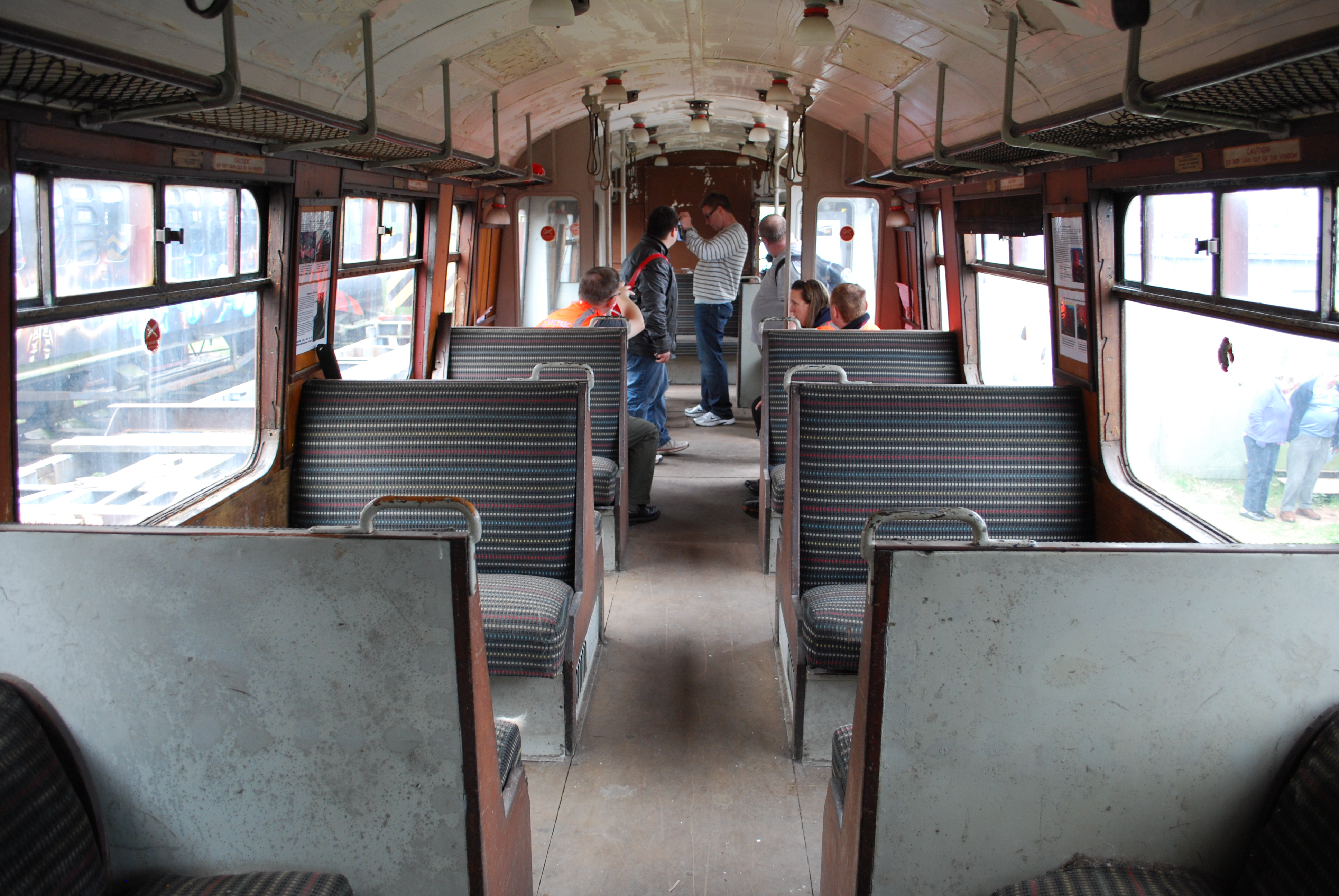 Interior of L.M.S. "Wirral & Mersey" (later Class 503) 650 v dc 3rd rail suburban 3-car e.m.u. No.28690 at the Electric Railway Museum, Coventry, 9/11.